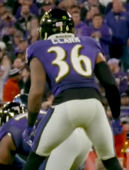 Chuck Clark in 2020. Image from video Two Big 4th Down Stops & Ensuing TDs vs. Ravens | Beneath the Surface, ~ 00:39.